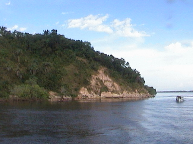 a view to the trombetas river near oriximina